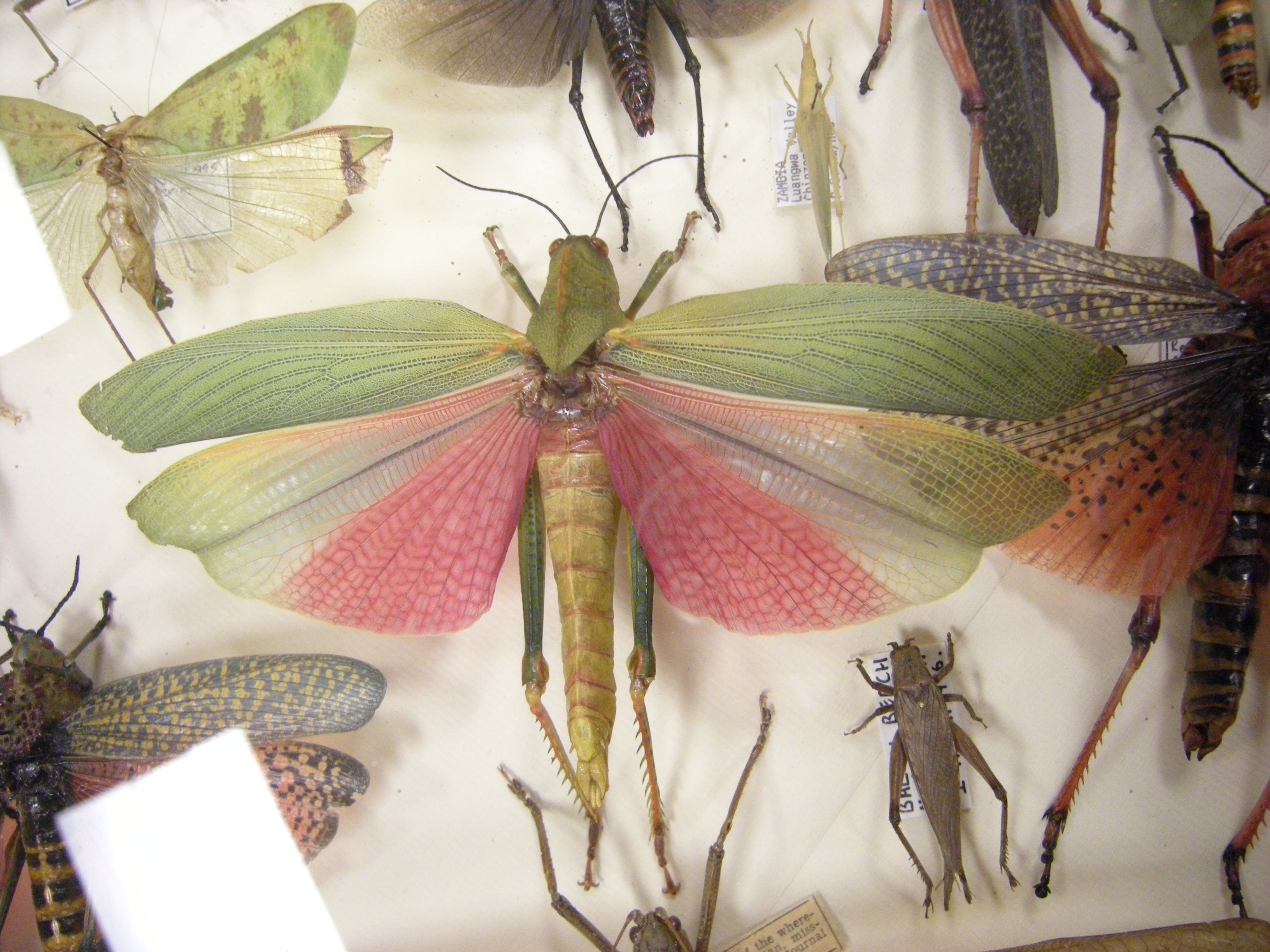 Unidentified insect. Part of Don Ehlen's "Insect Safari" collection. If you know more about the individual species here, please feel free to flesh out this description.